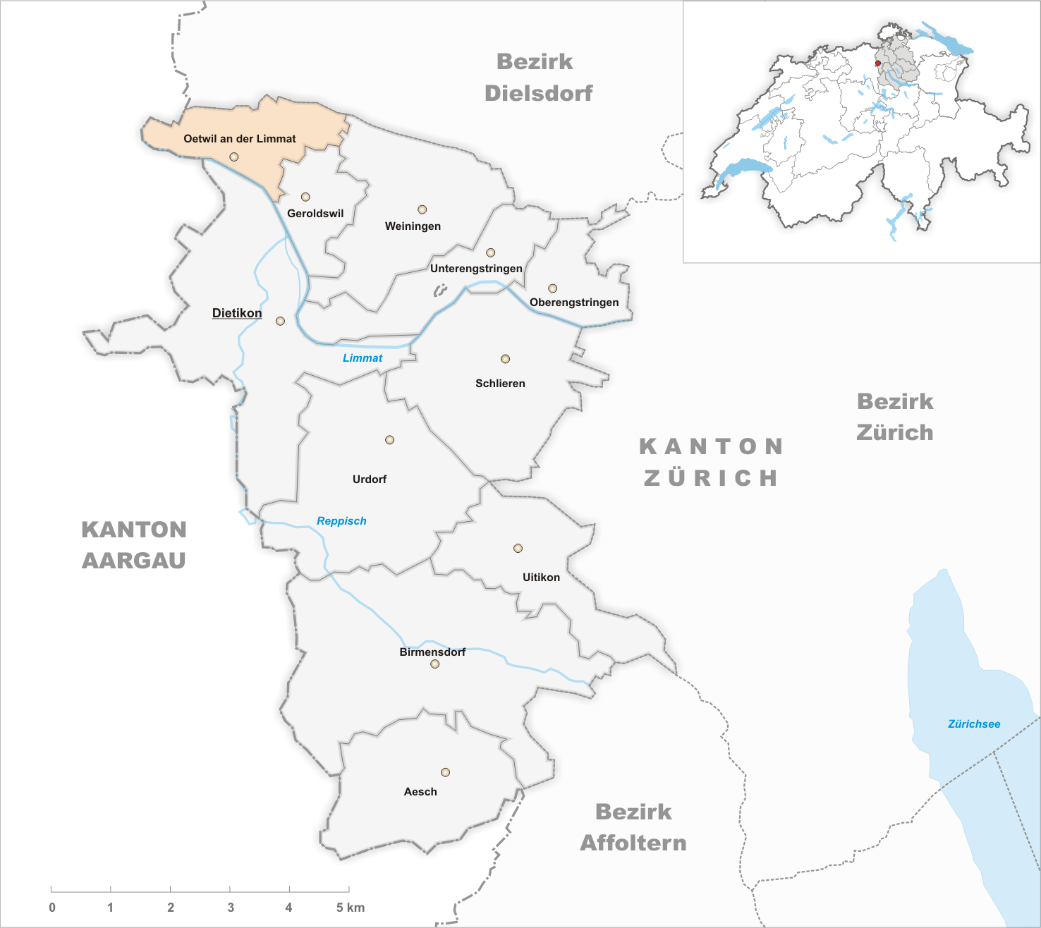 Municipality Oetwil an der Limmat